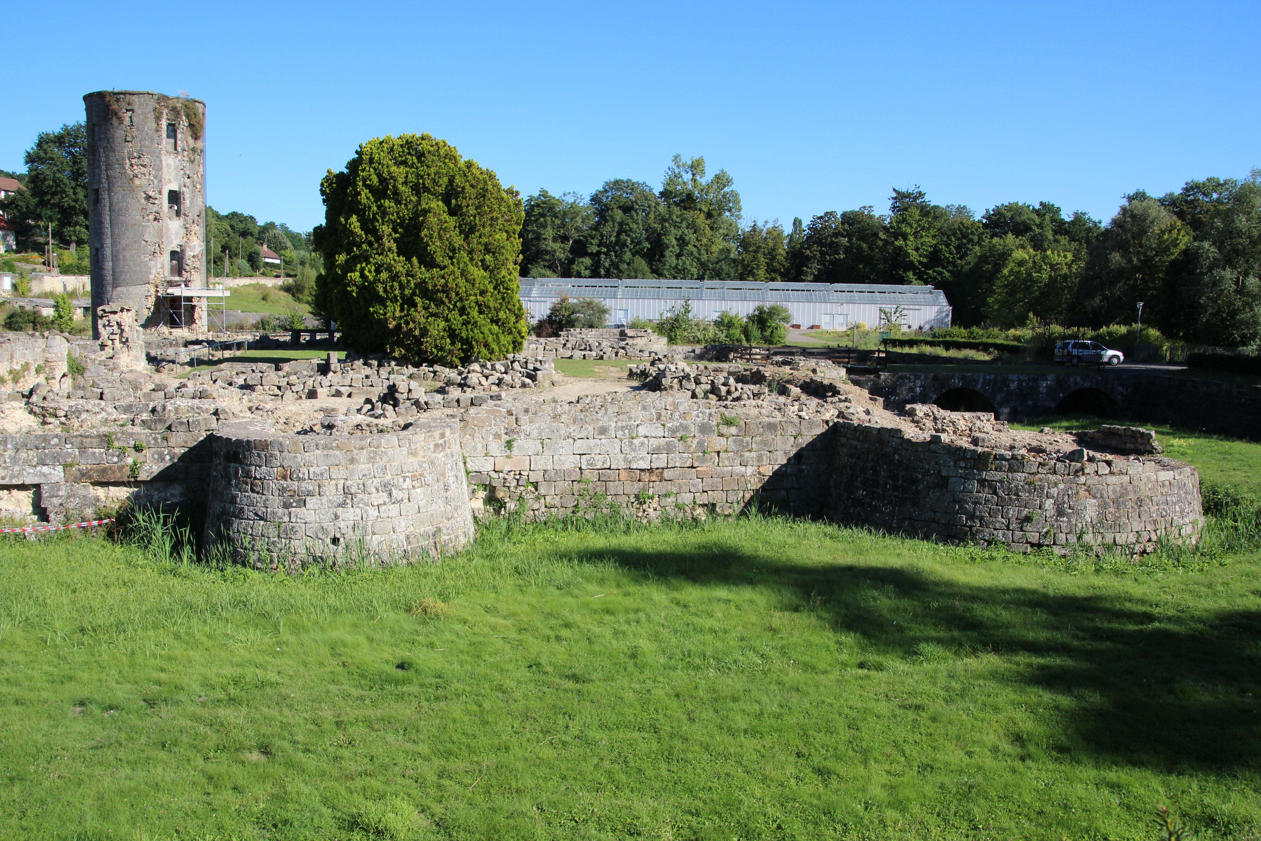 Montagu castel in Marcoussis, France.